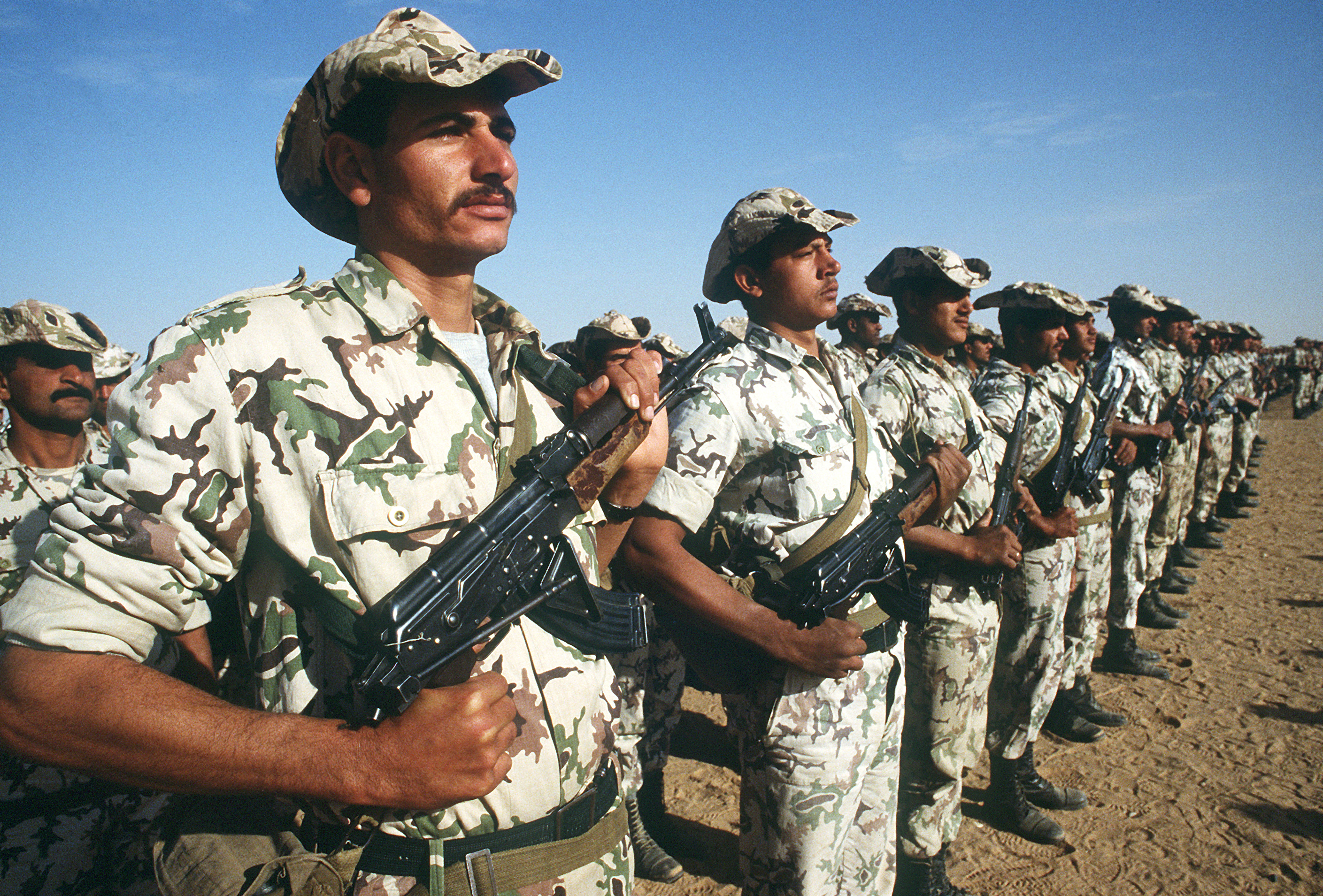 An Egyptian ranger battalion stands in formation holding AK-47 assault rifles in a demonstration for visiting dignitaries during Operation Desert Shield.